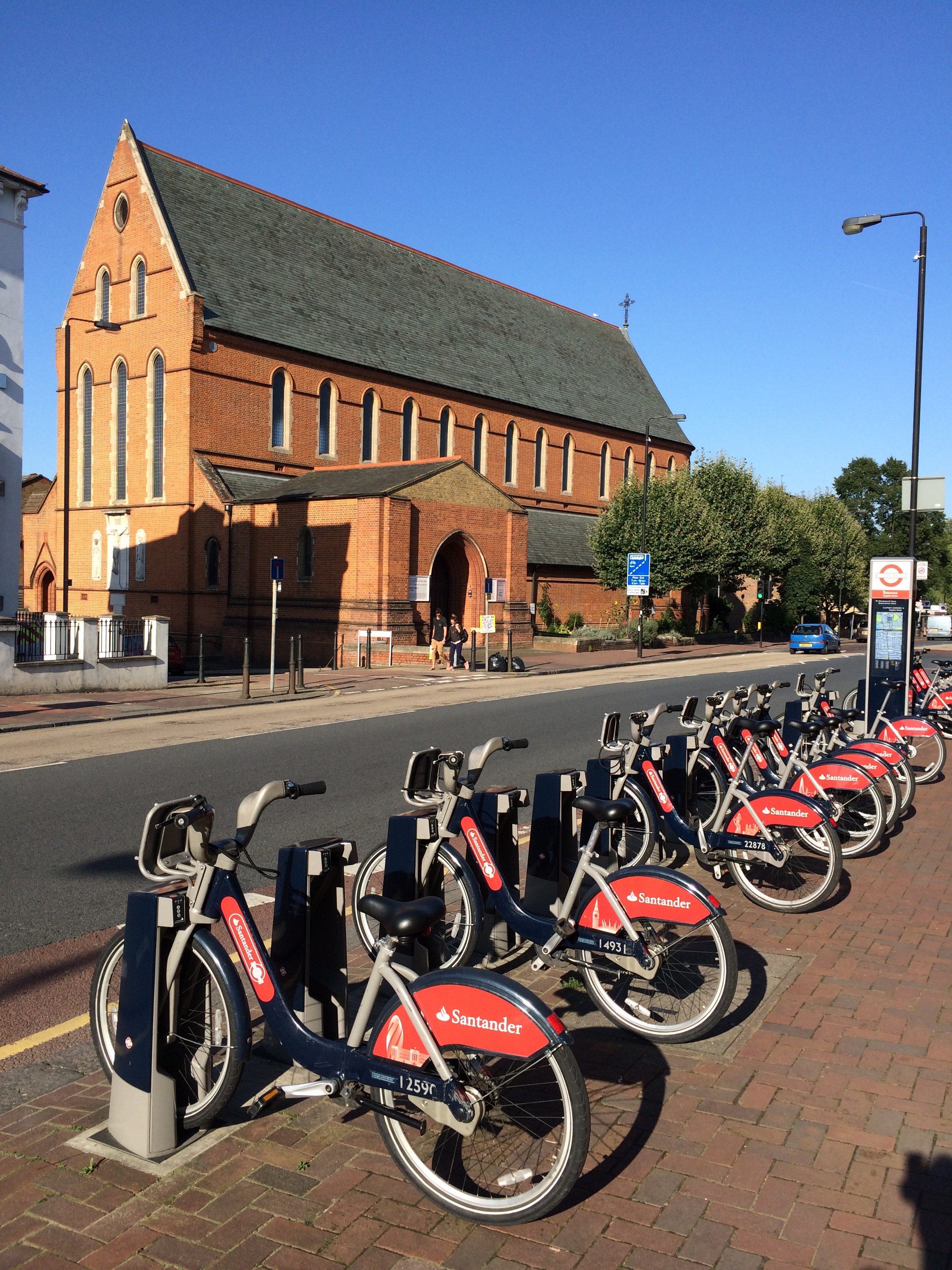 London public cycle hire docking point in front of Church of the Ascension, Lavender Hill, Battersea with several available cycles